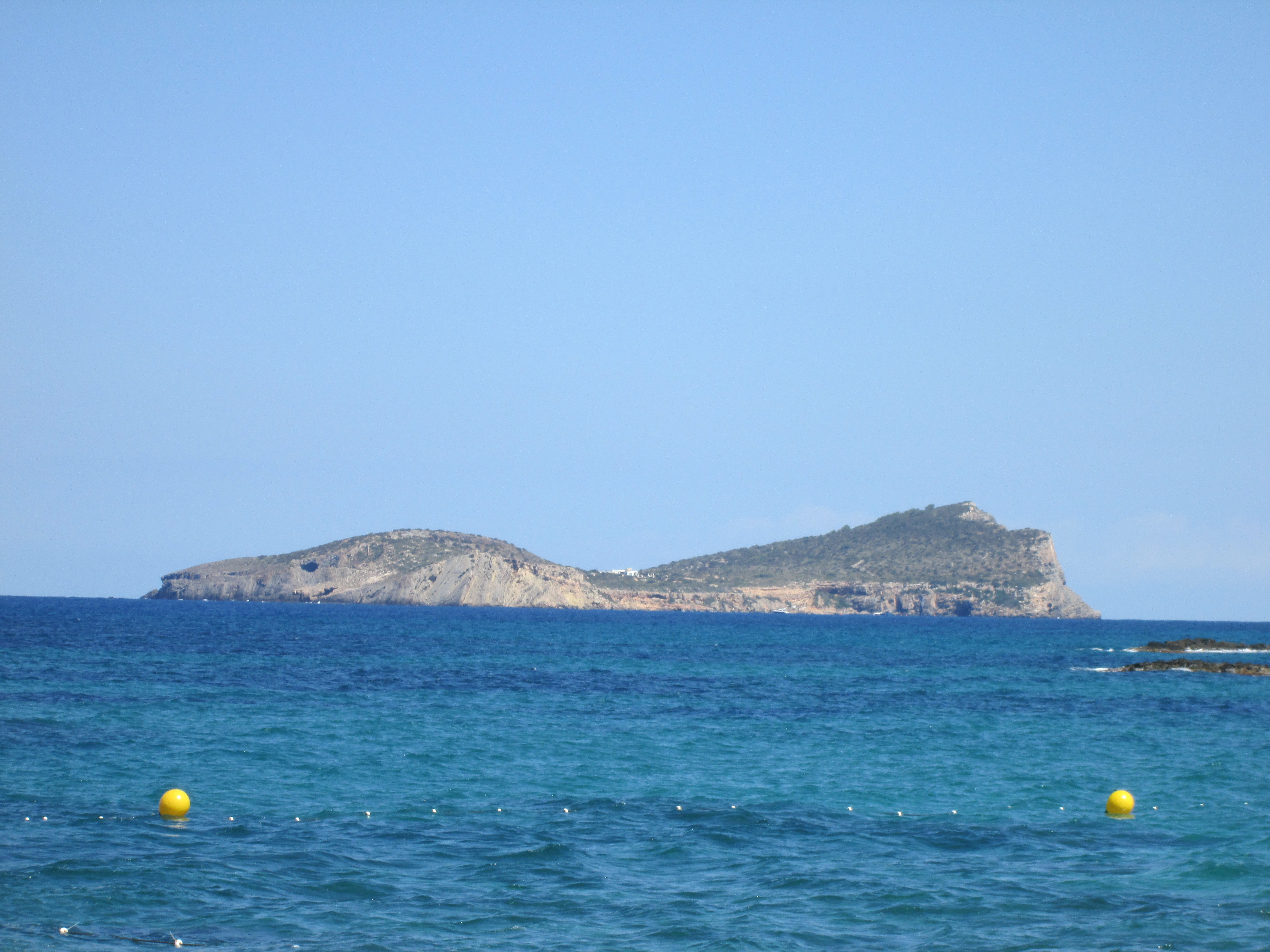 Tagomago Island - SPAIN